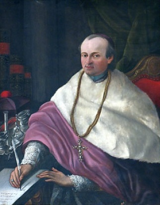 Ignác Batthyány, bishop of Transylvania